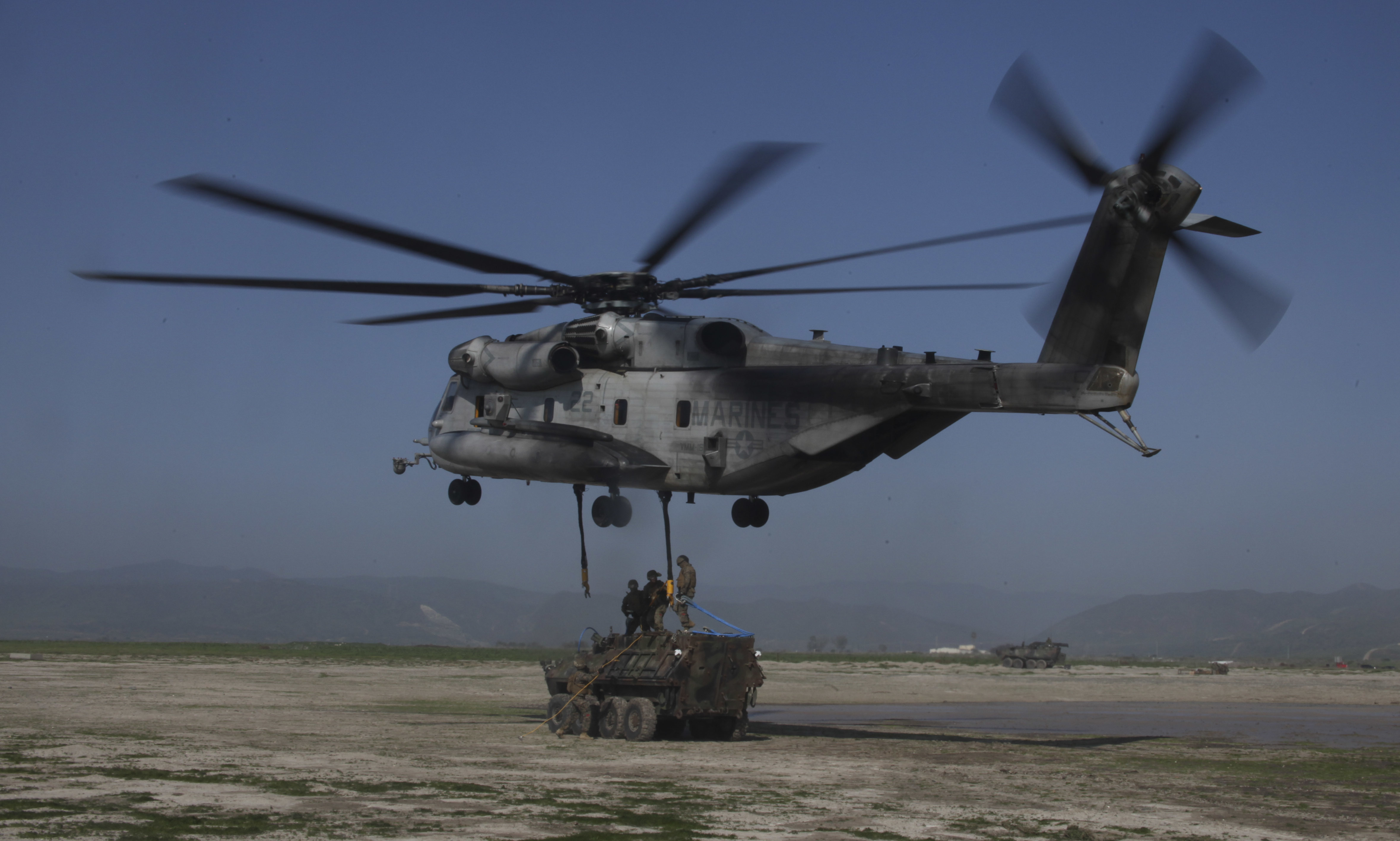 U.S. Marines with Combat Logistics Battalion 15, 15th Marine Expeditionary Unit, attach a LAV-25 light armored vehicle to a CH-53E Super Stallion during an external extract aboard Camp Pendleton, Calif., Jan. 21, 2015. The CH-53E is assigned to Marine Medium Tiltrotor Squadron 161 (Reinforced). As the 15th MEU’s combat logistics element and the air combat element respectively, CLB-15 and VMM-161 (Rein.) work together to enhance their combat skills in environments similar to those they may find in future missions. (U.S. Marine Corps photo by Cpl. Steve H. Lopez/Released)